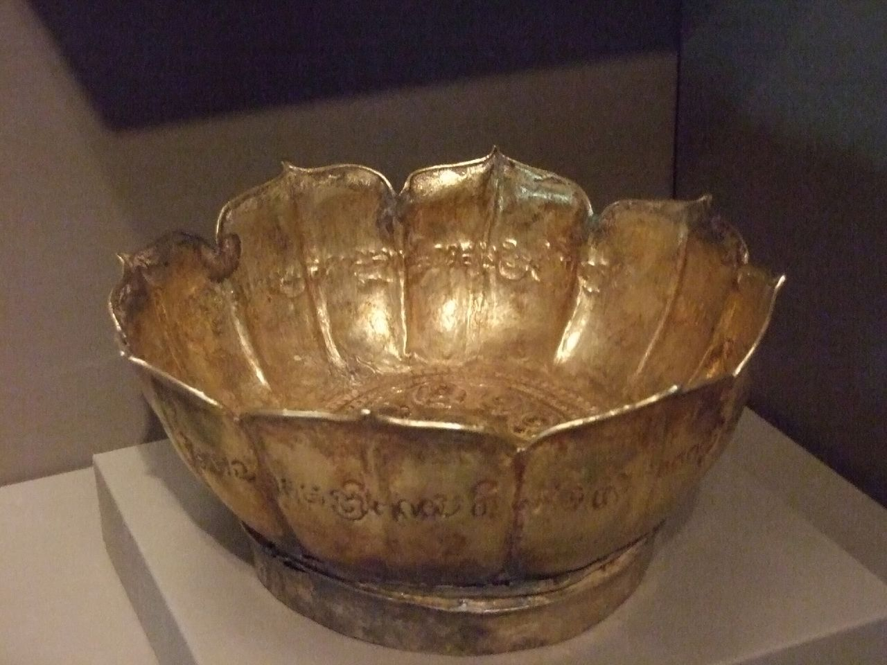 Lotus-shaped bowl, gold and silver alloy. Cambodia 1222 CE. Photographed at the Asian Art Museum of San Francisco in California.